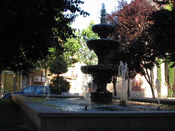 Plaza Mayor of Herencia (Spain)